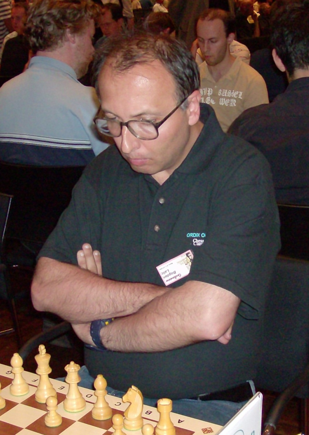 Bogdan Lalić, chess grandmaster from Croatia